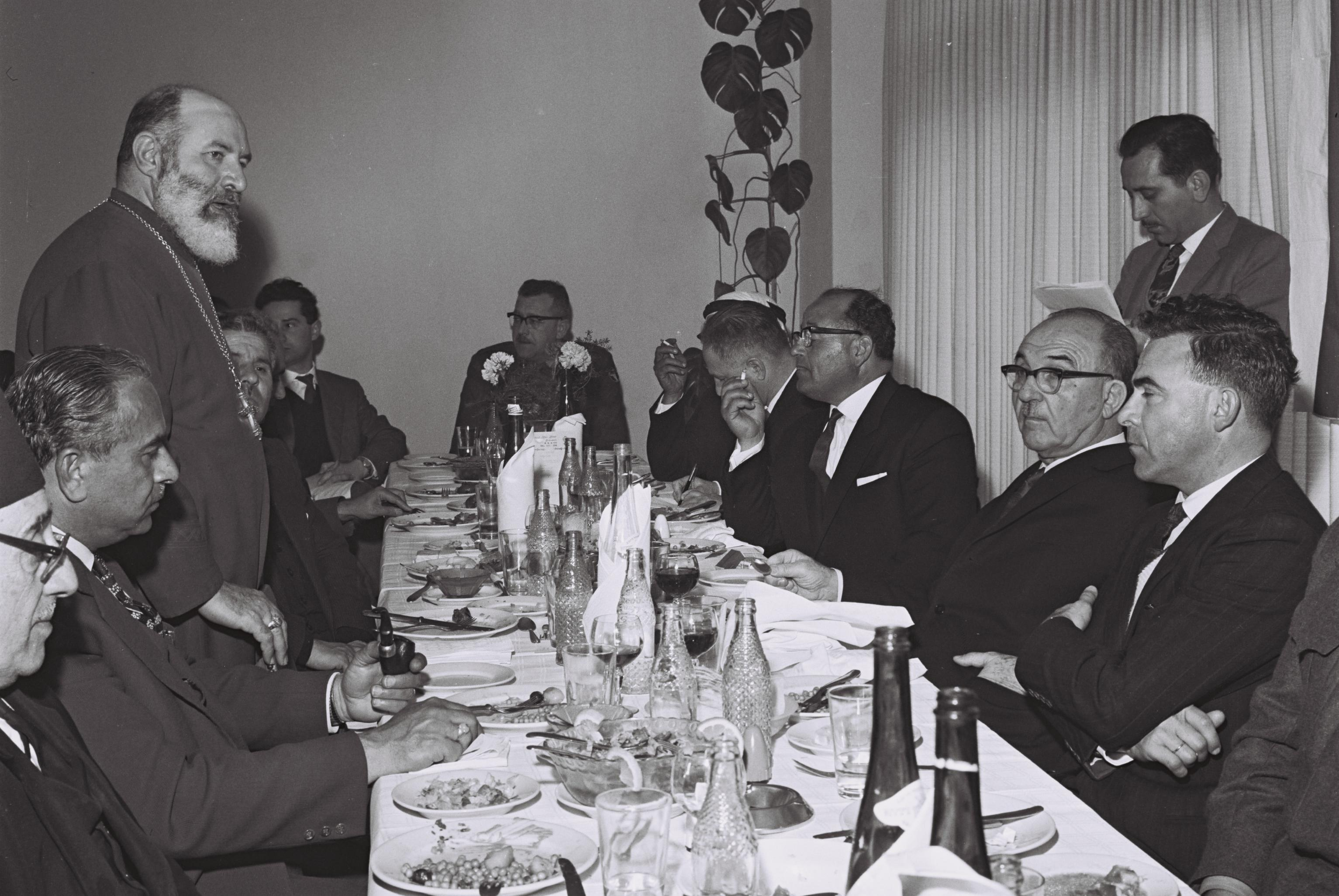 ARCHIBISHOP HAKIM ADDRESSING P.M. LEVI ESHKOL AFTER A LUNCHEON HELD IN NAZARETH DURING HIS FIRST OFFICIAL VISIT TO THE CITY.